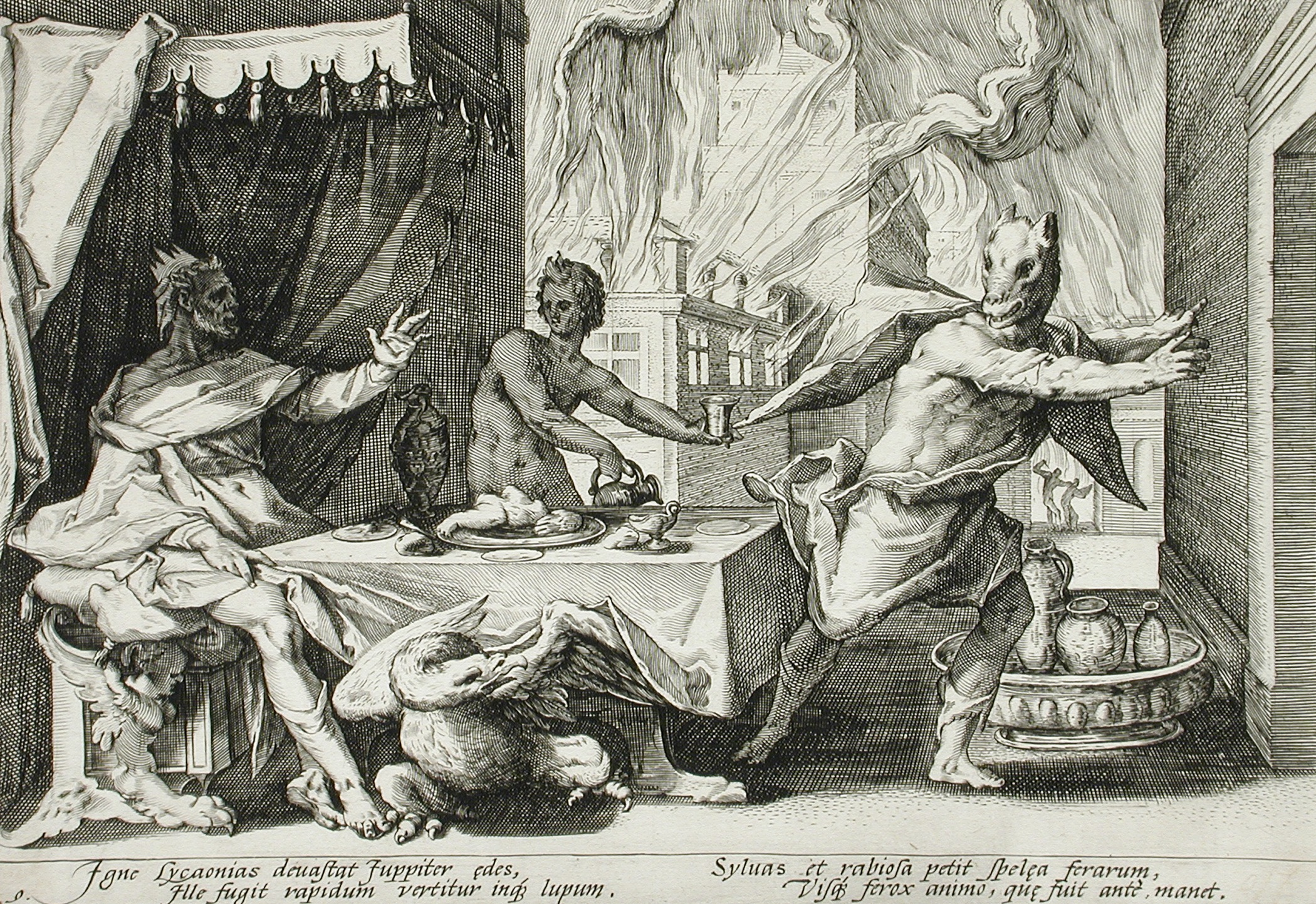 Holland, published 1589 Book: Metamorphoses by Ovid, book 1, plate 9 Prints; engravings Engraving Graphic Arts Council Curatorial Discretionary Fund (M.71.76.9) Prints and Drawings